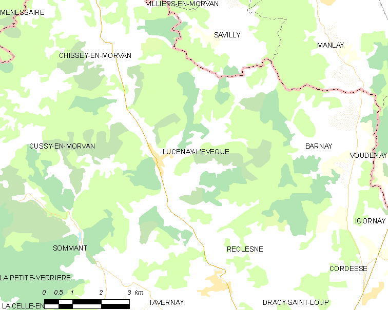 Map of French municipality